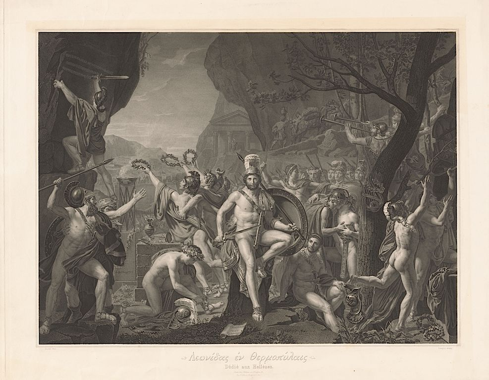 This calcographic engraving by Jean-Nicolas Laugier reproduces Jacques-Louis David's painting 'Leonidas at Thermoplyae' (Musée du Louvre, Paris; inv. no. 3690), which was conceived in 1799 and finished in 1814.